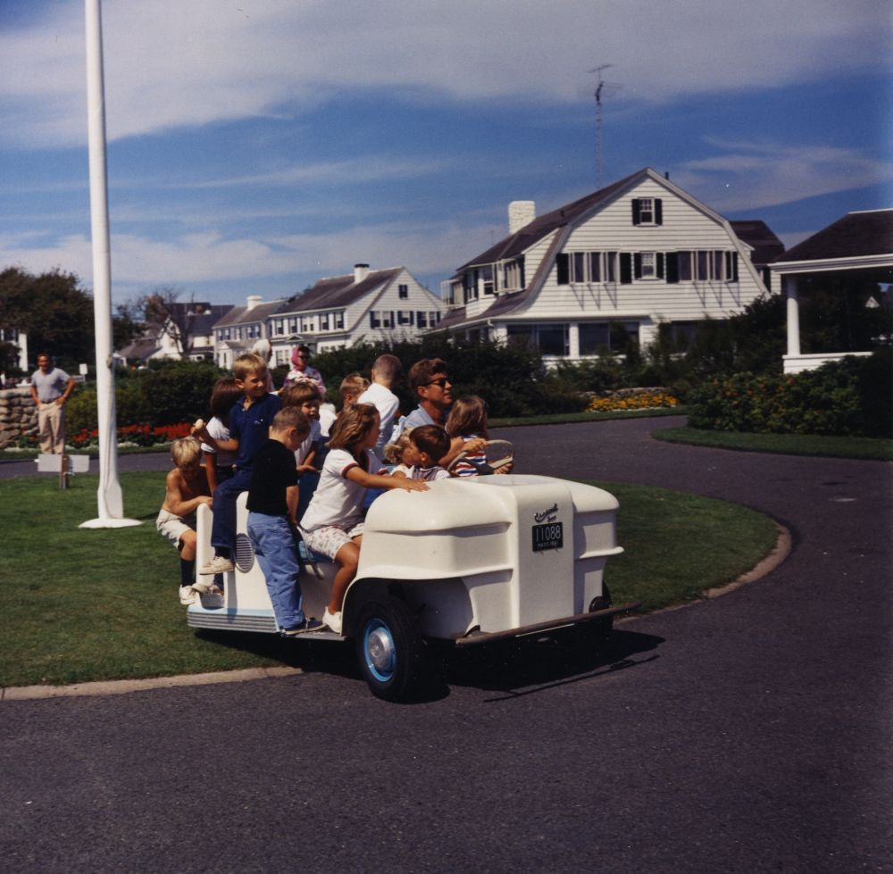 KN-C23540 President Kennedy gives younger generation of Kennedys a ride around Kennedy compound, Hyannis Port, Massachusetts, September 3, 1962.